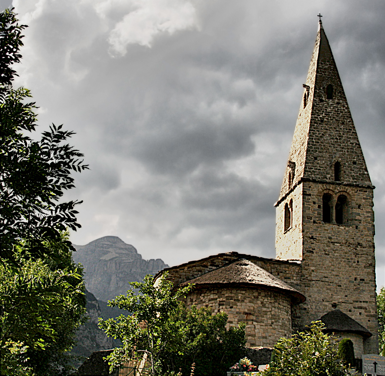 Mère-église, Saint-Disdier-en-Dévoluy